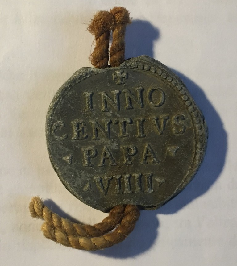 Bull of pope Innocent IX from 1591 c